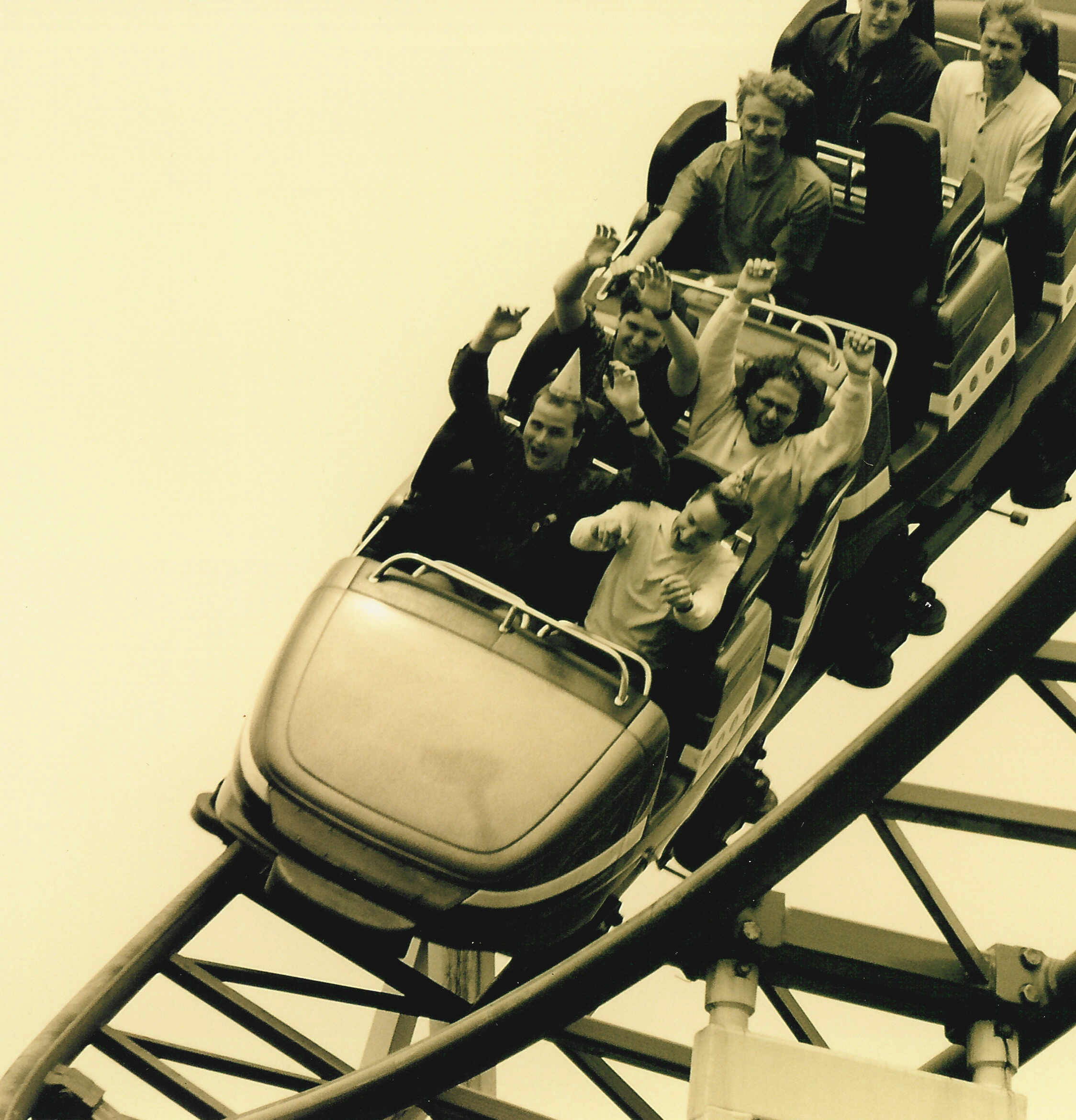 Roller coaster "Windstorm", Fun Forest, Seattle Center, Seattle, Washington